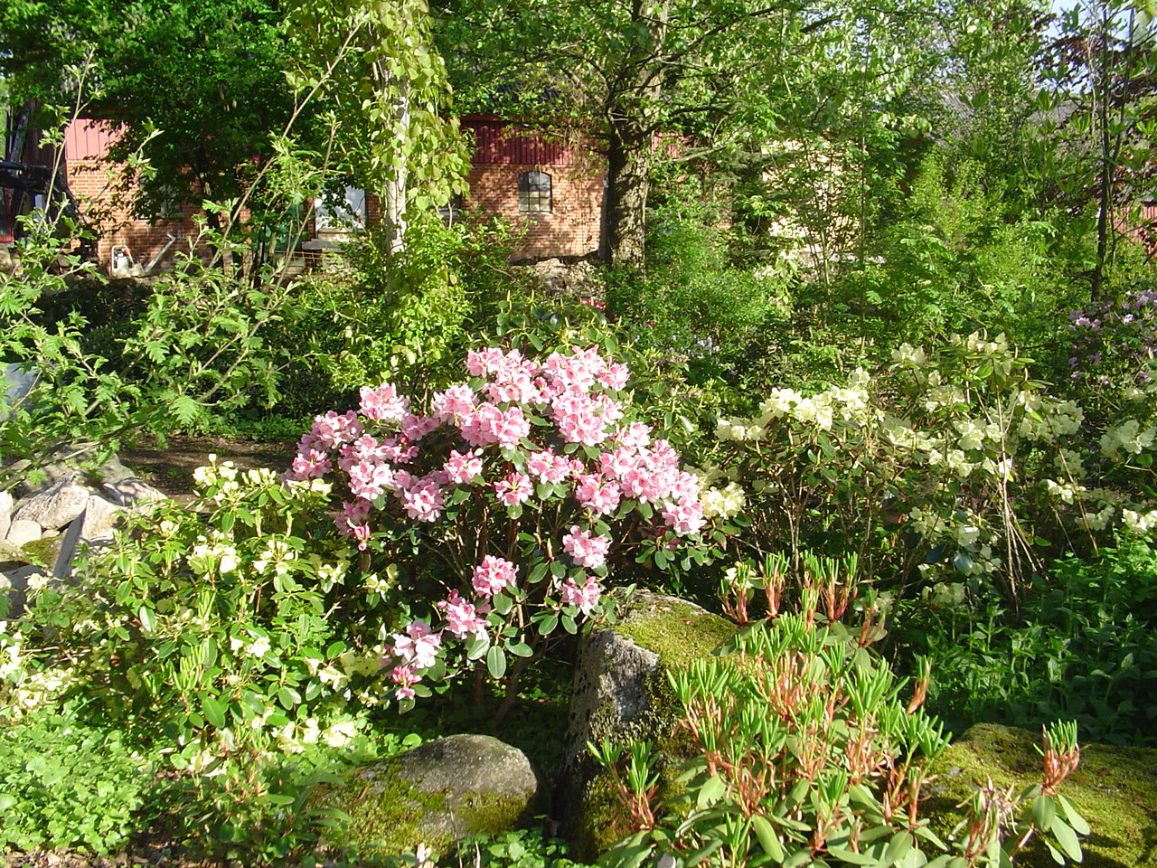 Stenestad Park Springtime 2006